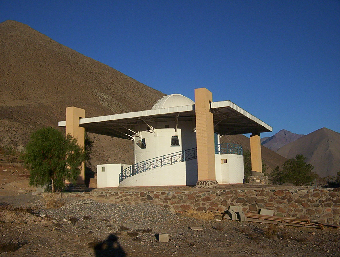 day